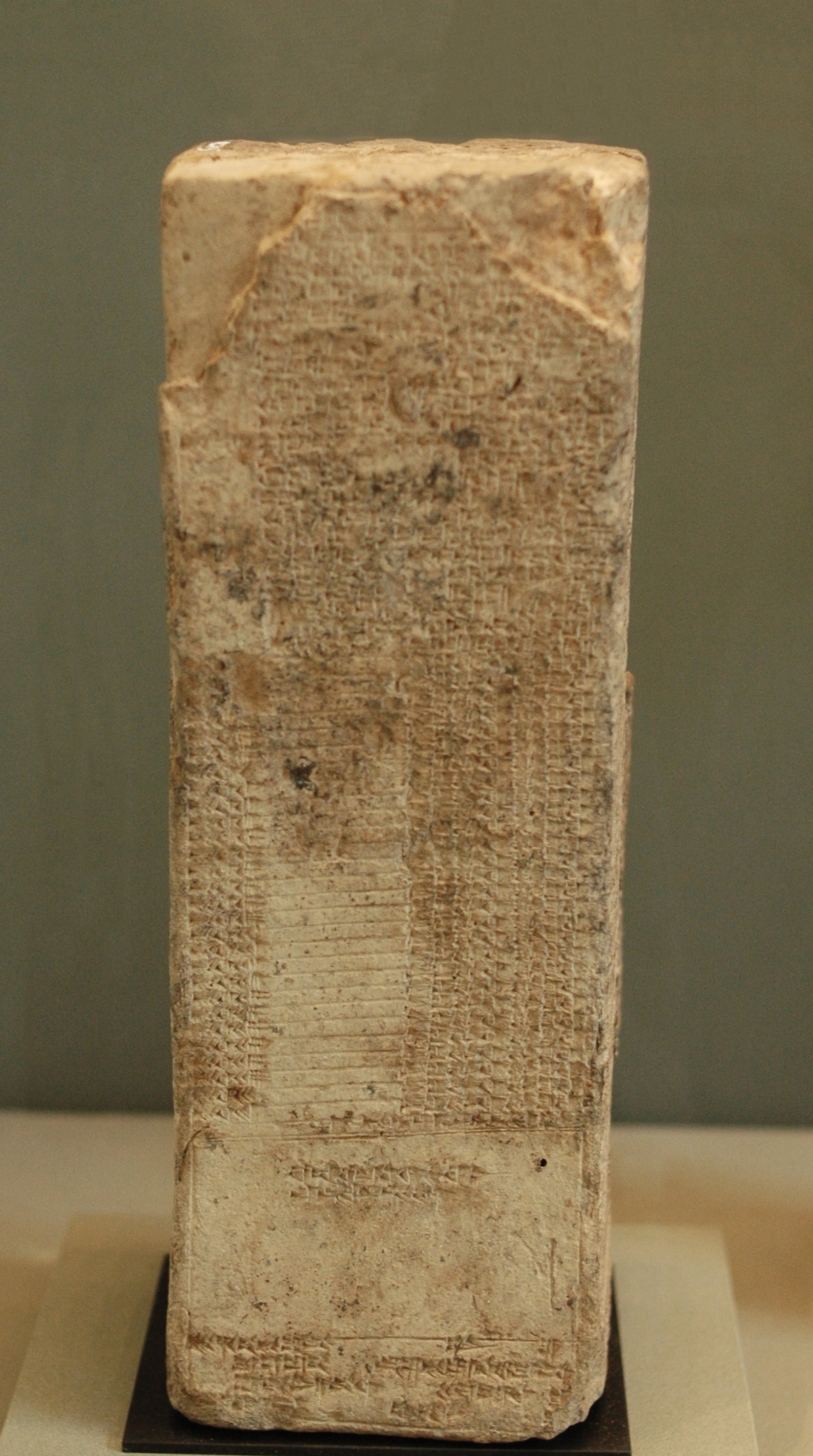 List of the kings of Larsa. Terracotta, Larsa, ca. 2025–1763 (39th year of the reign of Hammurabi).